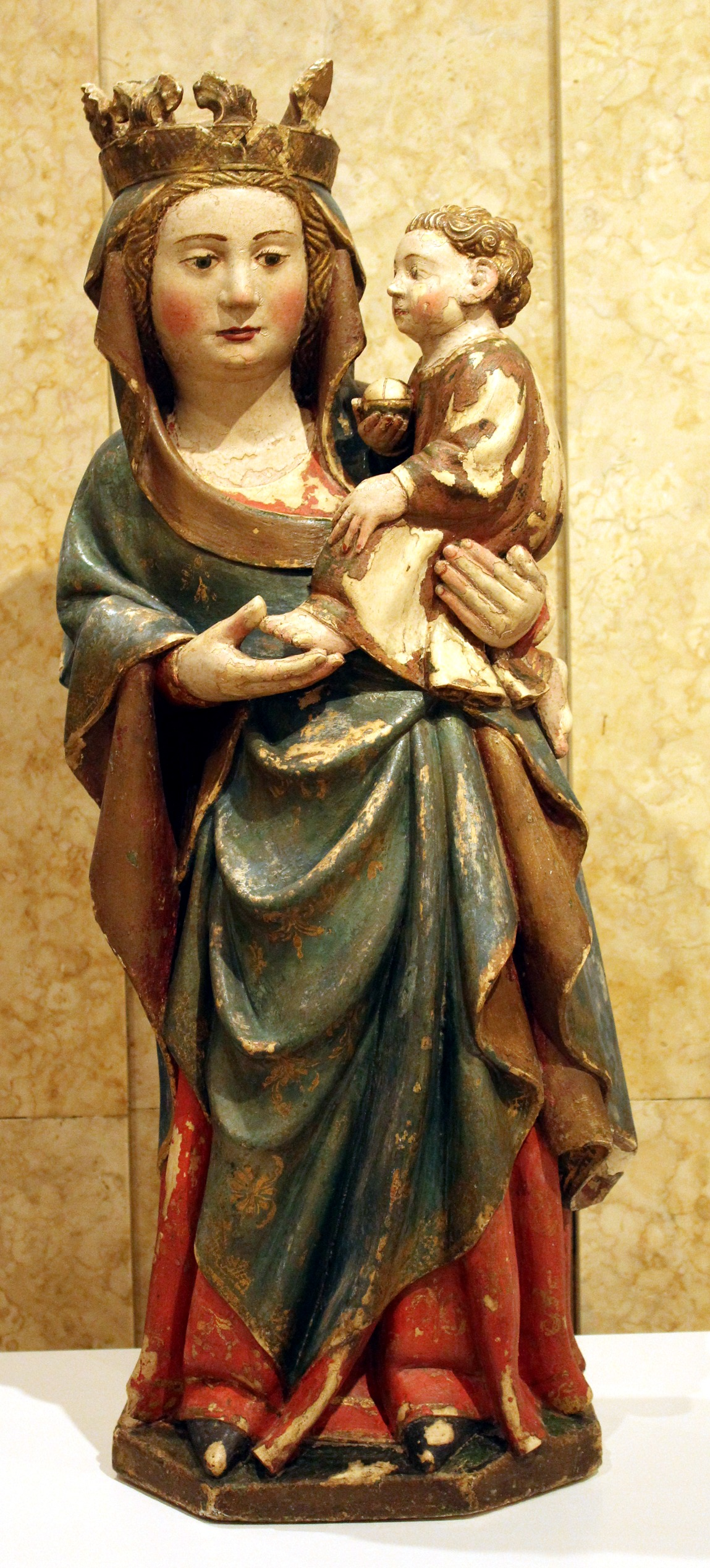 Lisbon, Museum Nacional de Arte Antiga, mother with child